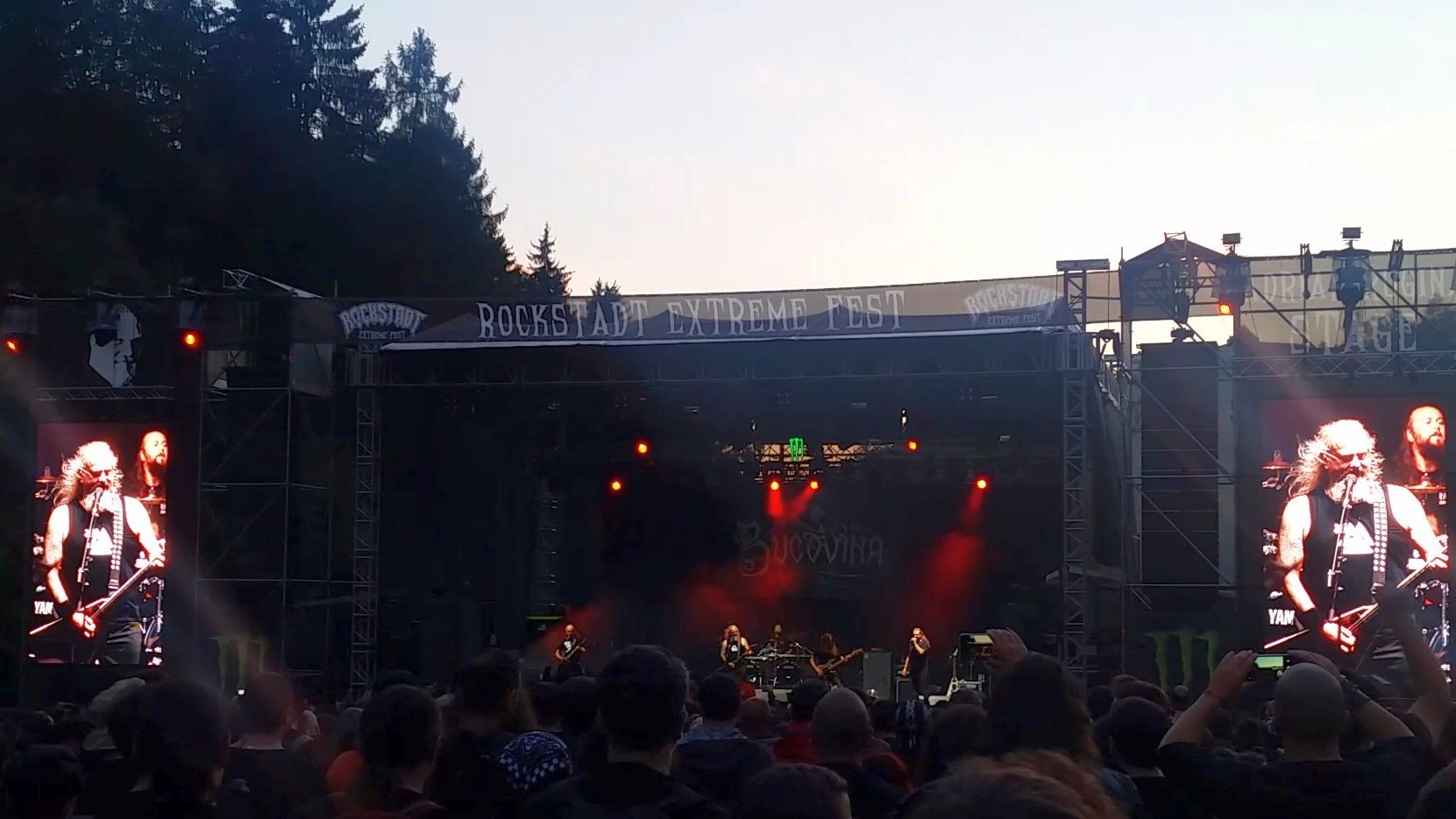 Bucovina live at Rockstadt 2018 in Râșnov, Romania, on 05 August 2018. Still from a short video recorded using a mobile phone.